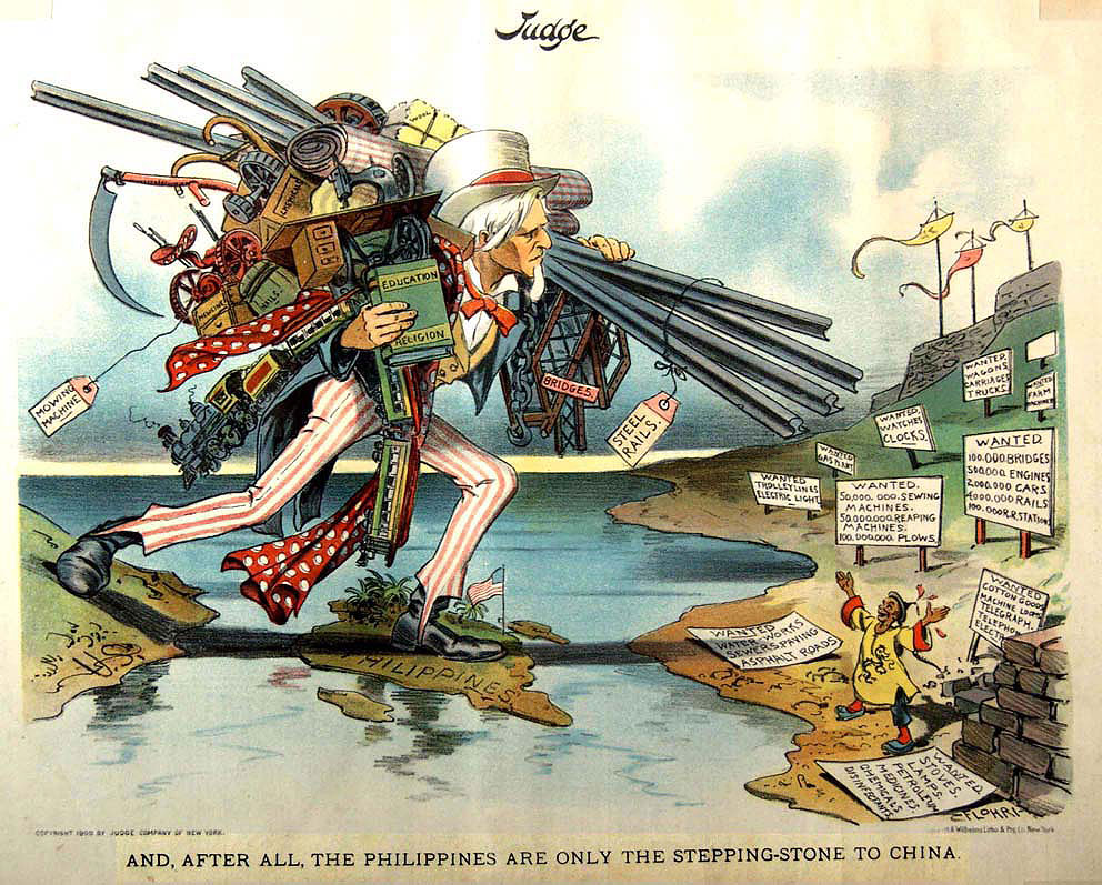 "AND, AFTER ALL, THE PHILIPPINES ARE ONLY THE STEPPING-STONE TO CHINA". Editorical cartoon from after USA conquest of the Philippines. Uncle Sam is seen stepping across the ocean into the Philippines loaded down with symbols of modern civilization, including books labeled "Education" and "Religion", bridges, railroad trains, sewing machine, farm machinery. A short distance beyond the Philippines a small figure representing China stands with a happy expression and open arms, surrounded by signs saying large quantities of modern goods are wanted.